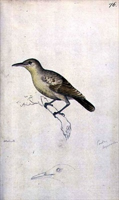 Moorea Reed-warbler (Acrocephalus ( caffer ) longirostris) (Plate 76). Painted by William Ellis while accompanying Captain James Cook on his third voyage (1776-78).